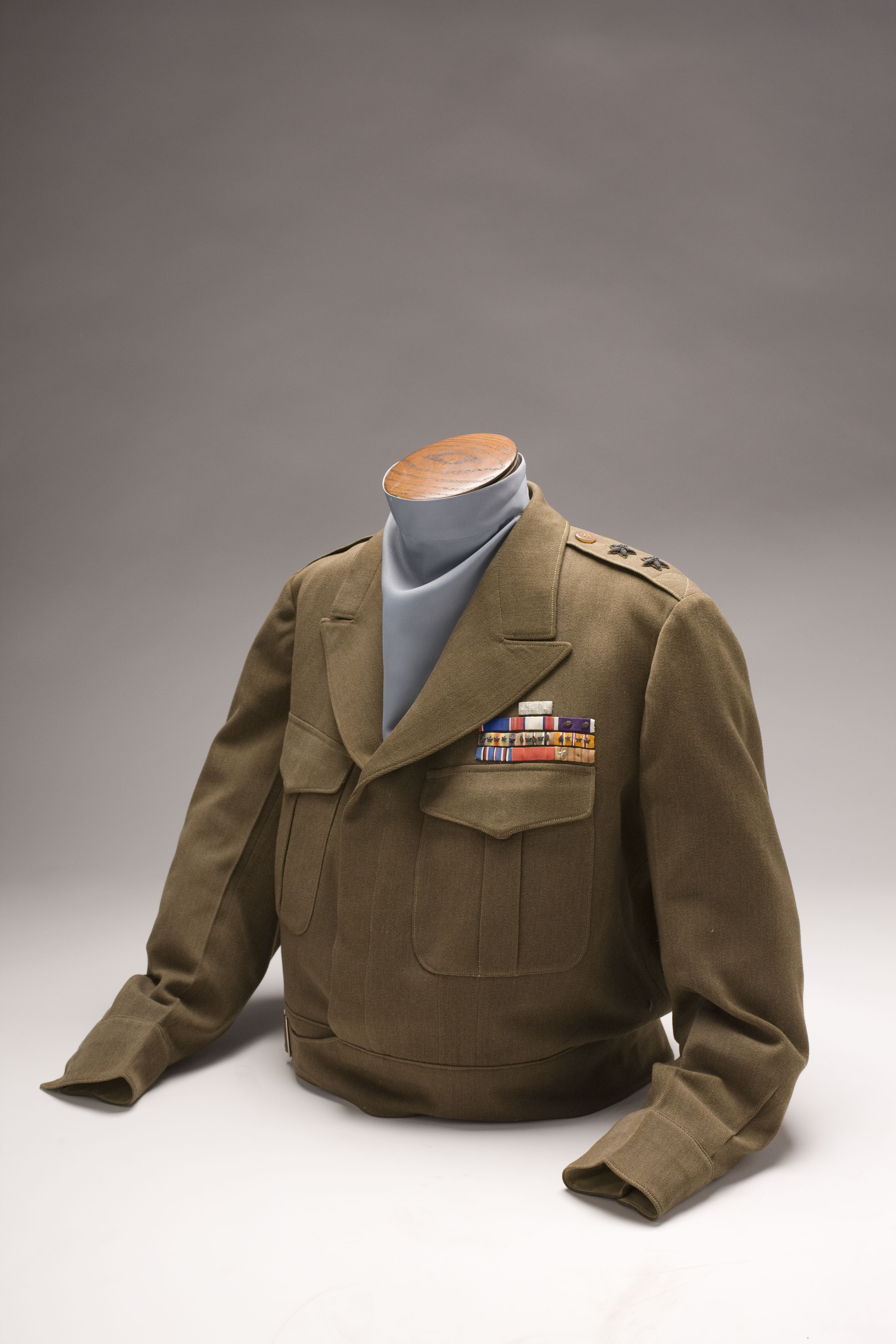 Office of Strategic Services Director William Donovan wore this jacket during World War I when he was with the 165th Infantry Regiment of the 42nd Division—renamed from the renowned "Fighting 69th" of New York’s Rainbow Division. For more information on CIA history and this artifact please visit